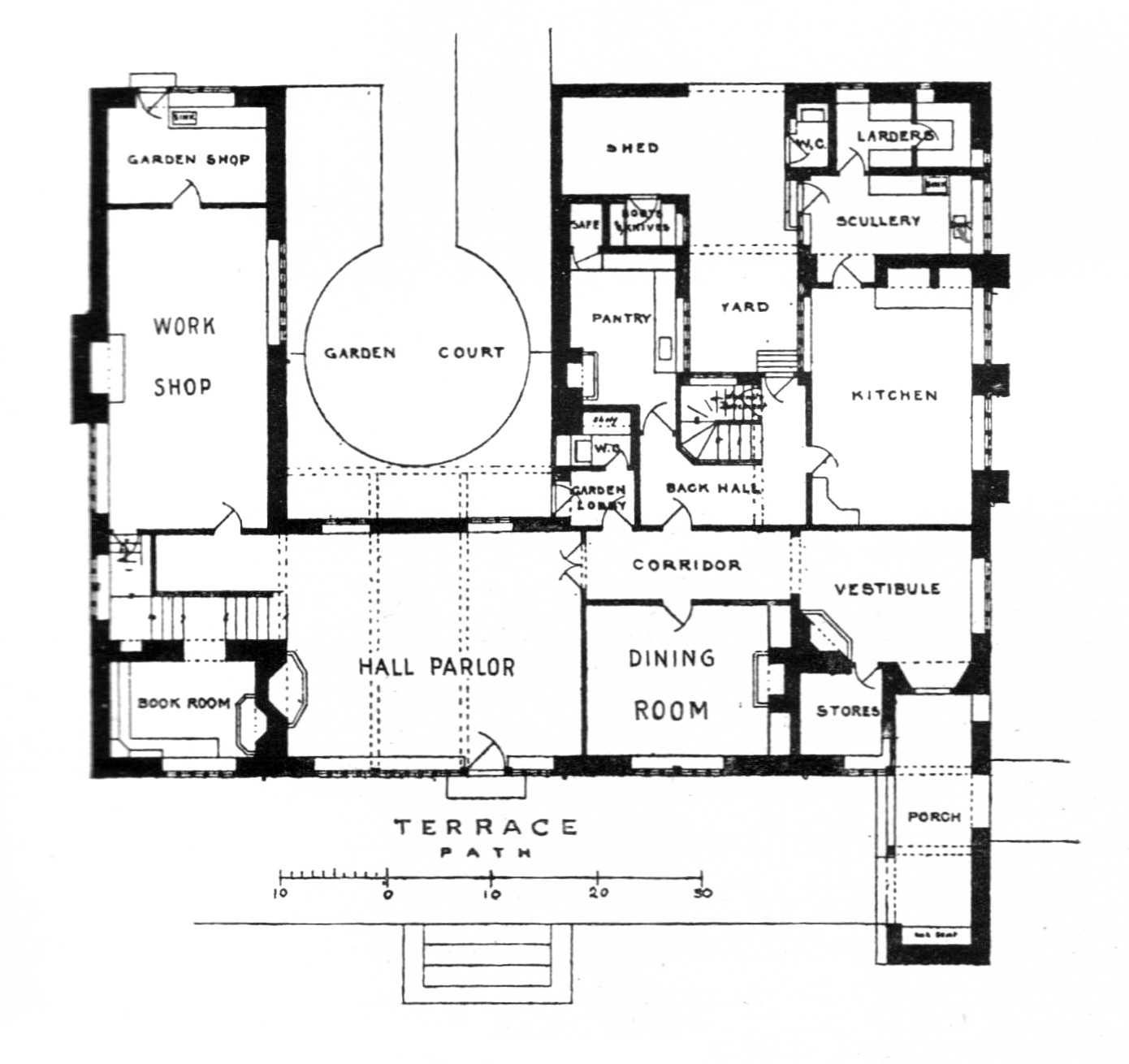 Fig. 22 Munstead Wood, floorplan Edwin Lutyens, architect